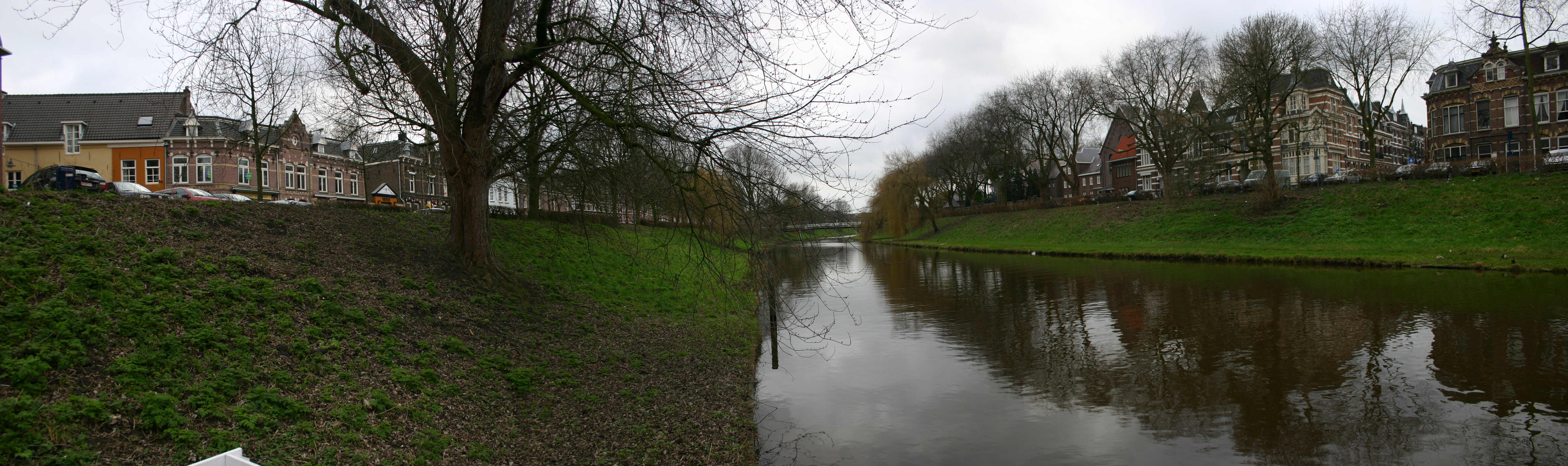 The Dommel river in 's-Hertogenbosch, the Netherlands